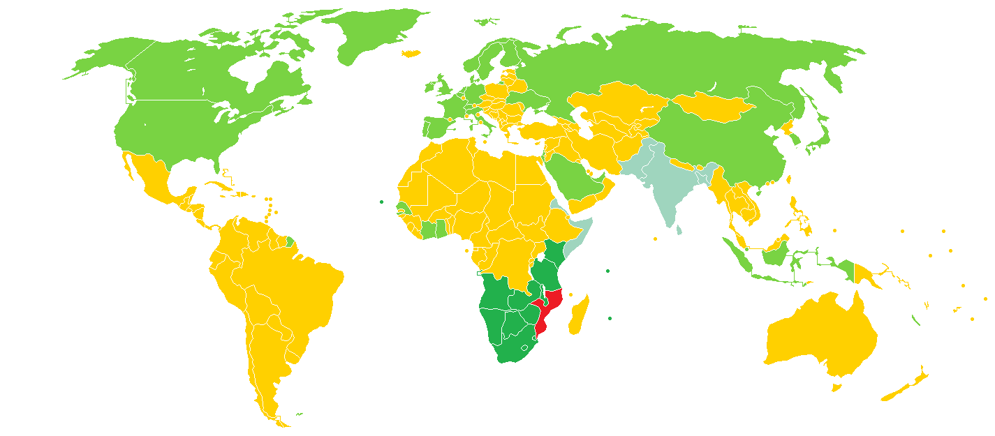 Visa policy of Mozambique Mozambique Visa-free Visa on arrival